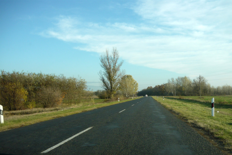 Route 40 between Cegléd and Ceglédbercel, Hungary